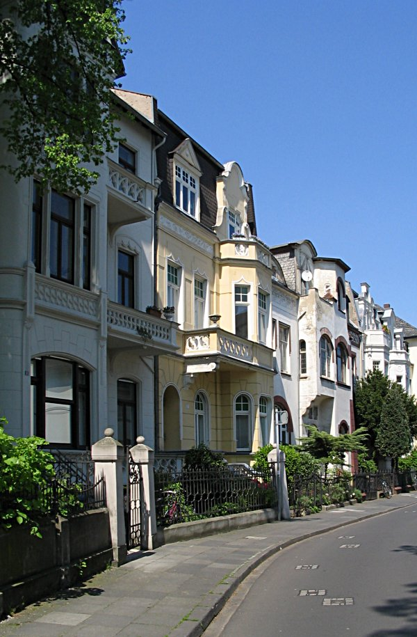 Gründerzeit-Houses, Bonn-Südstadt